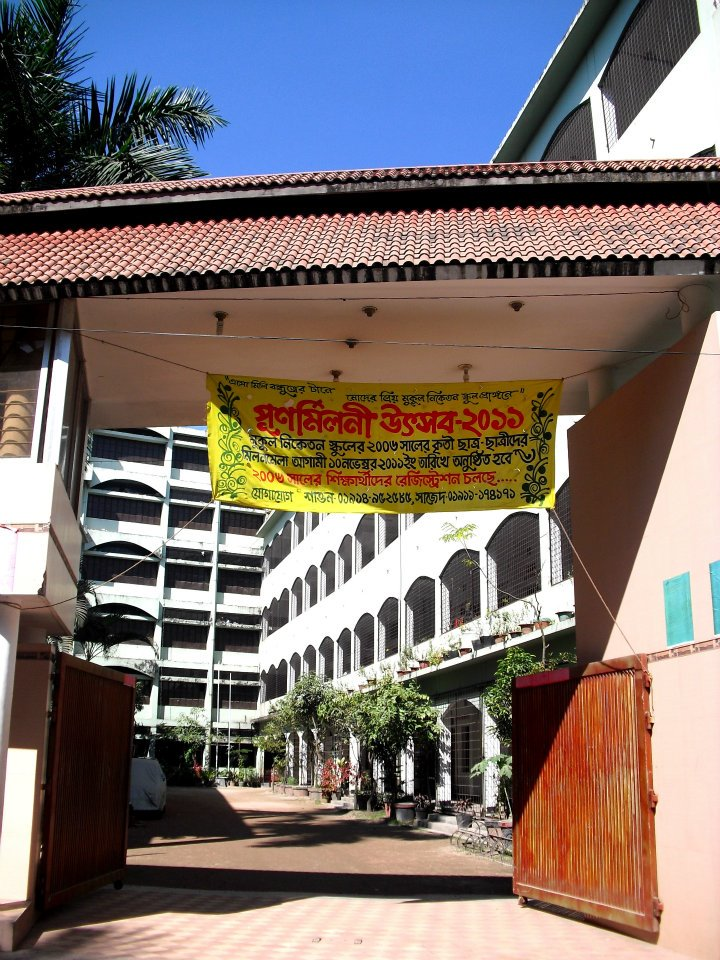 Mukul Niketan High School-fuad